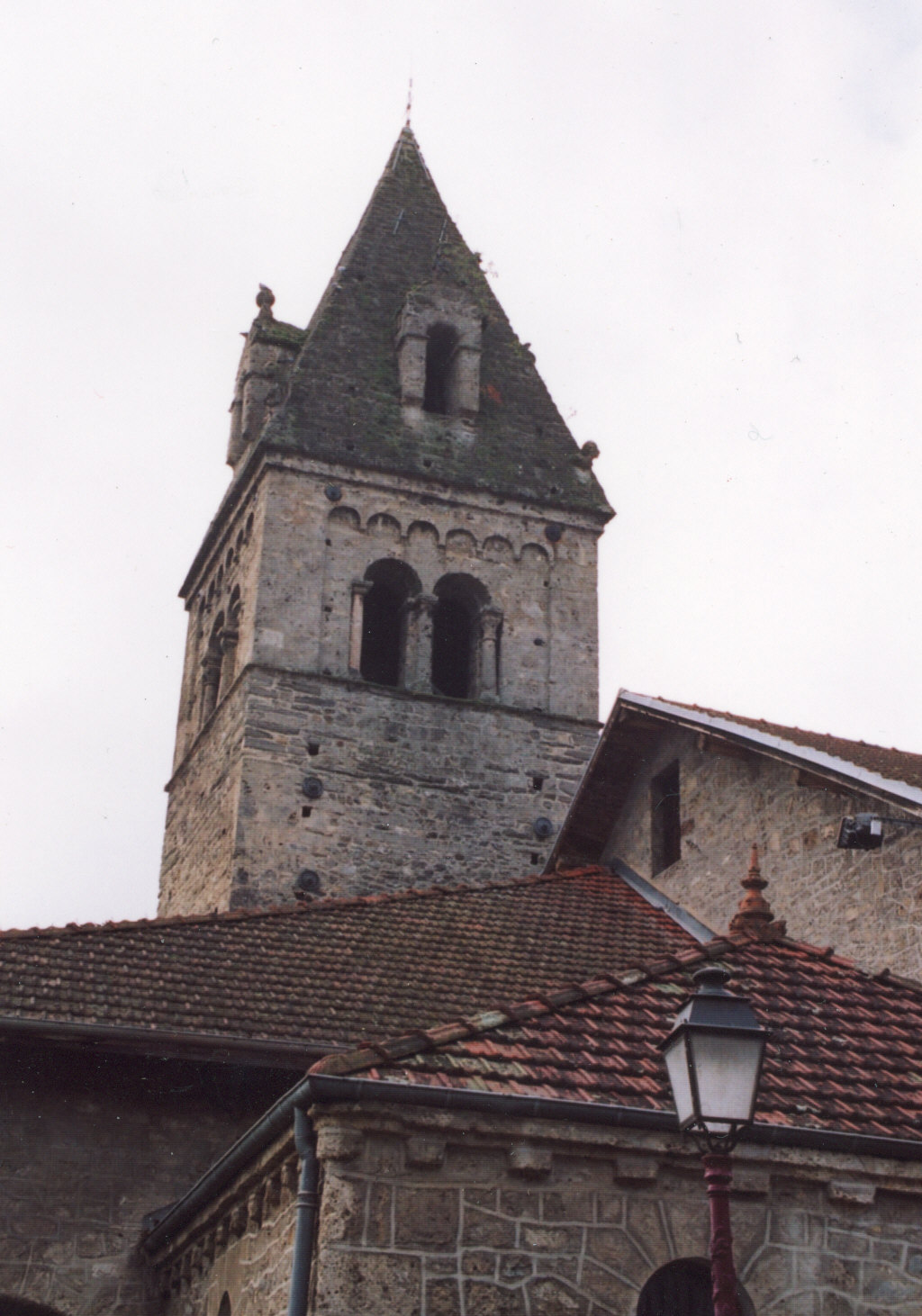 Bell tower (XIe century) of the church Saint-Pierre. Town : Saint Pierre d'Allevard, Isère, France